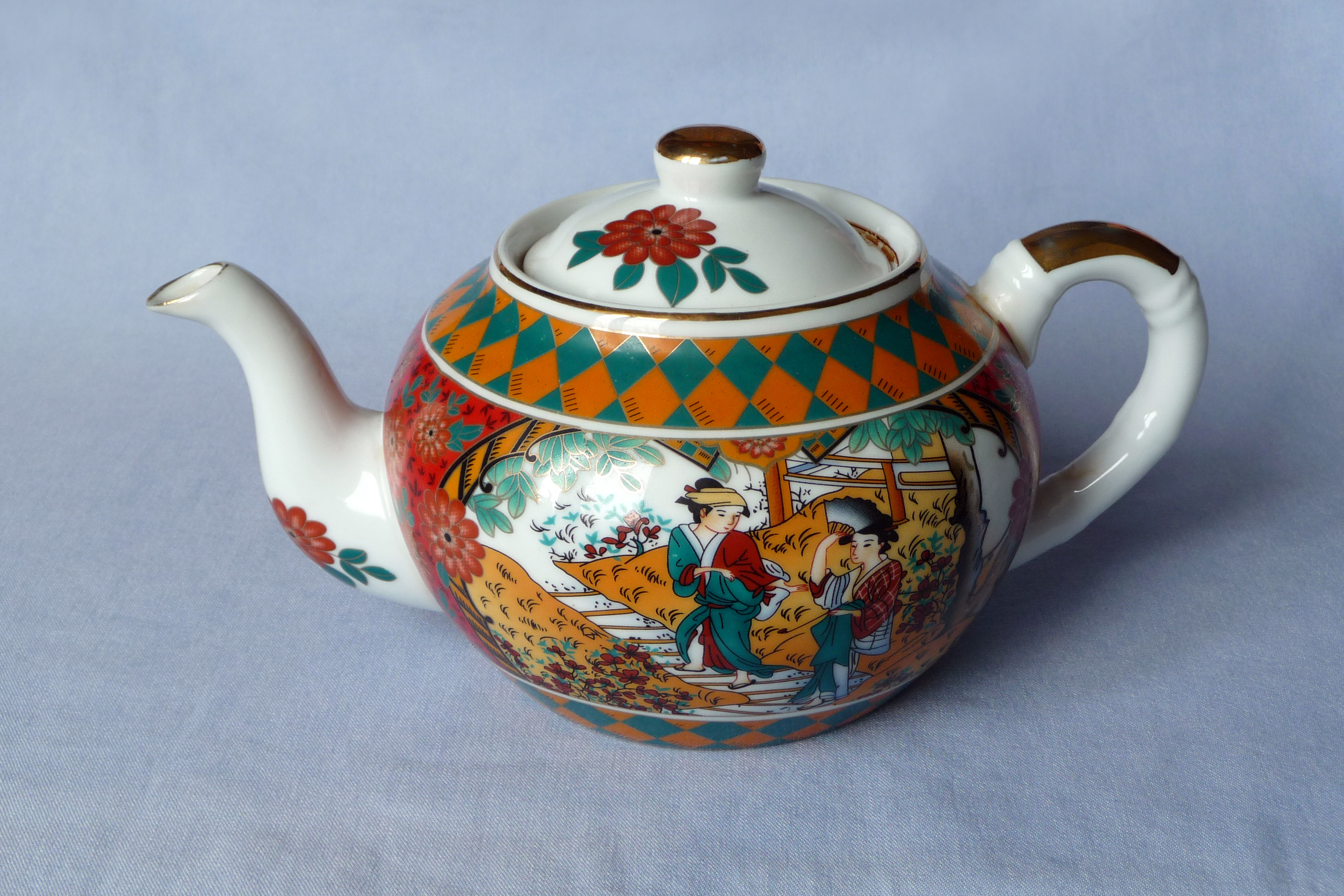 The Teapot, made in UK, ~2005